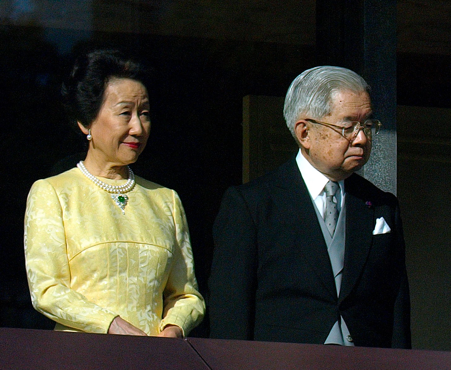 Prince Masahito and Princess Hanako appeared the "Visit of the General Public to the Palace for the New Year Greeting" at the Tokyo Imperial Palace in Chiyoda Ward, Tōkyō Metropolis on January 2, 2011.